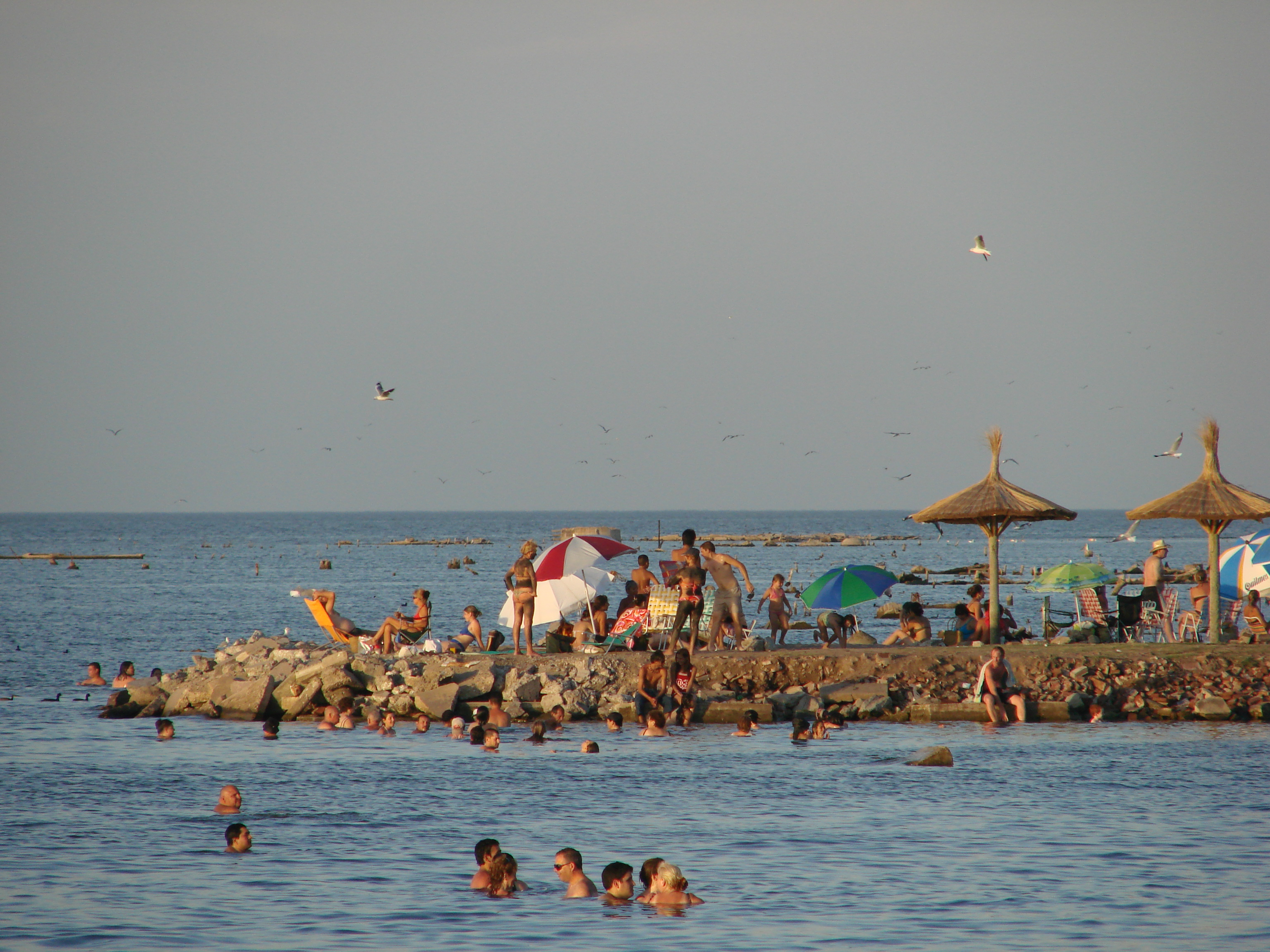 Summer in Miramar Village. Sea View of "Mar Chiquita" in Córdoba Province, Argentine.